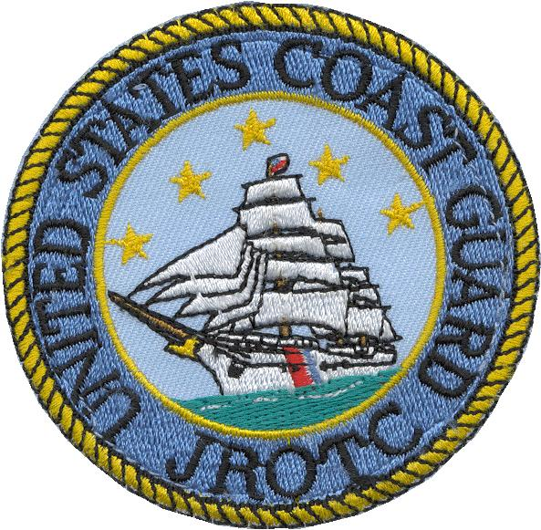 Photo used in article Junior Reserve Officers' Training Corps to demonstrate the official design of the U.S. Coast Guard Junior ROTC for public awareness purposes. Image Courtesy of United States Coast Guard